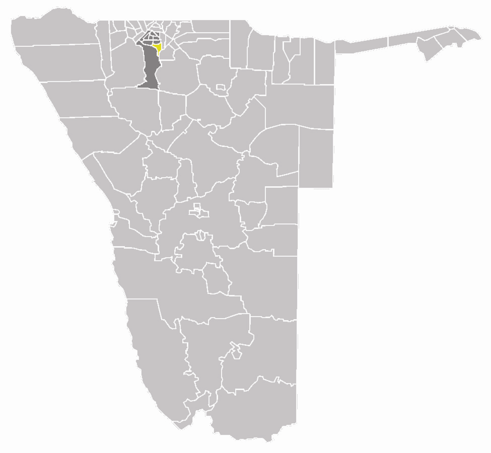 map of the Okatyali constituency within the Oshana region, Namibia